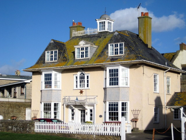 The Moorings - West Bay. Designed by E S Prior (who designed Pier Terrace 1195902) and built in 1905. The architect, Edward Schroeder Prior (1857-1932), was of the Arts and Crafts Movement. Examples of his more significant designs are Winchester College Music School and Cambridge Medical School.